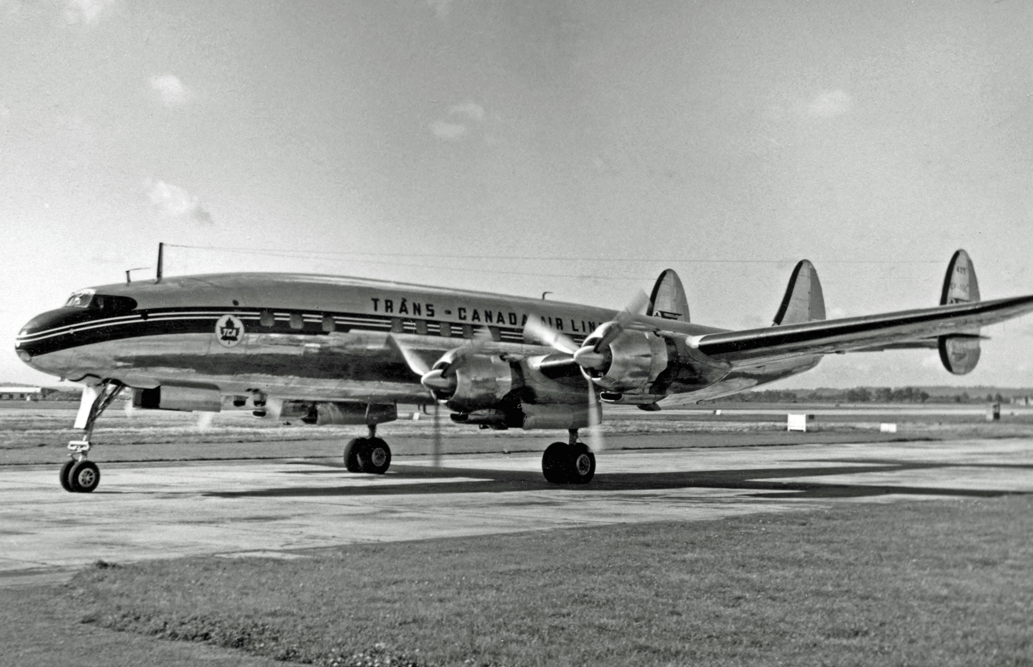 Lockheed L1049C Super Constellation of Trans-Canada Airlines arriving at London Heathrow North